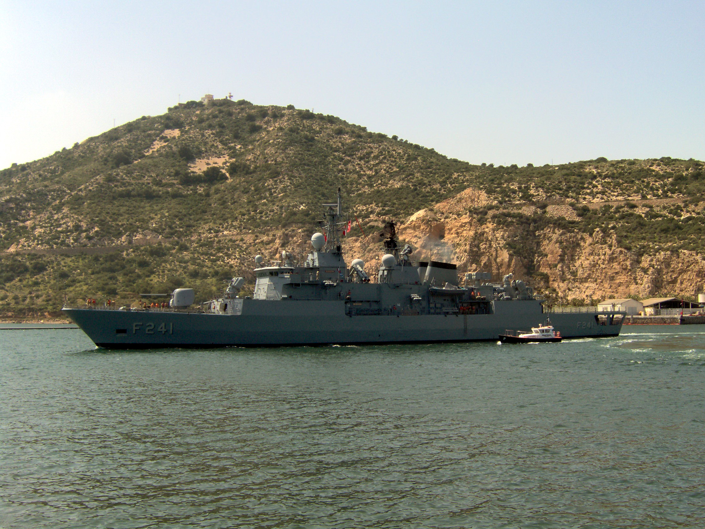 Turkish frigate Turgutreis in Cartagena